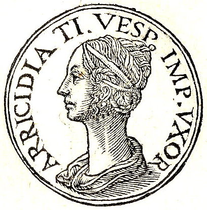 Arrecina Tertulla was a Roman woman that lived in the 1st century. She came from obscure origins and her family were of Equestrian rank.